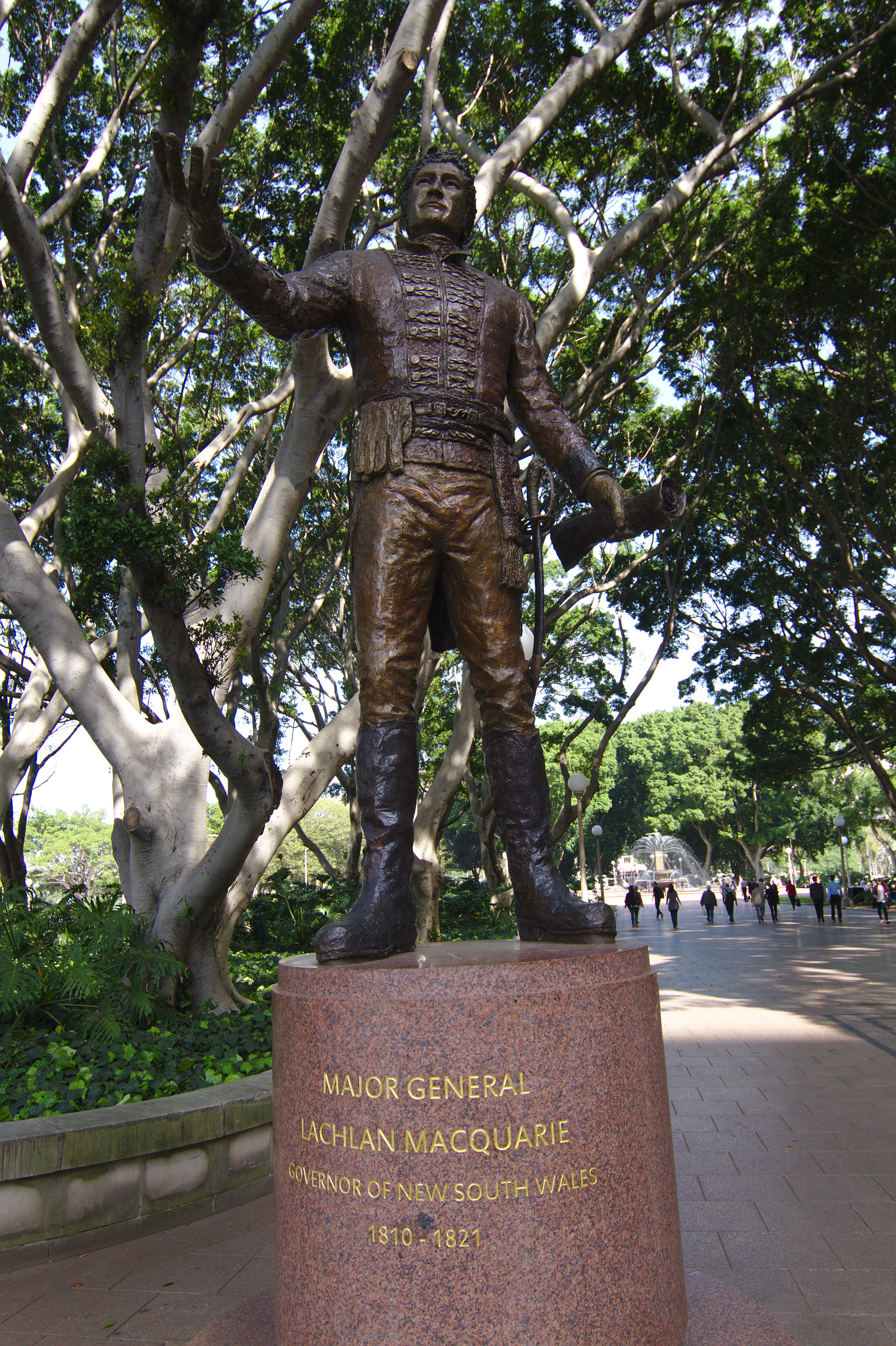 Major-General Lachlan Macquarie monument at Hyde Park, Sydney, CBD